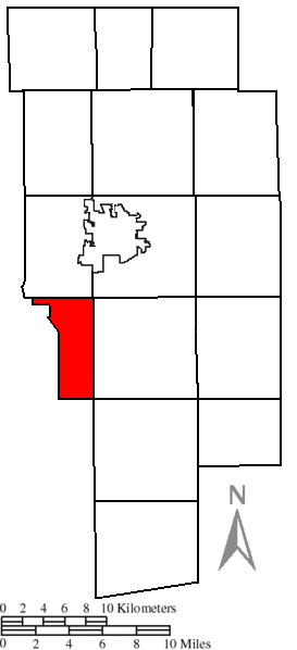 Originally created by the US Census. Modified by myself to highlight the township.